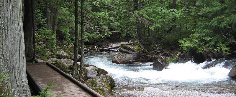 Glacier National Park, Montana, USA. Avalanche Lake Trail